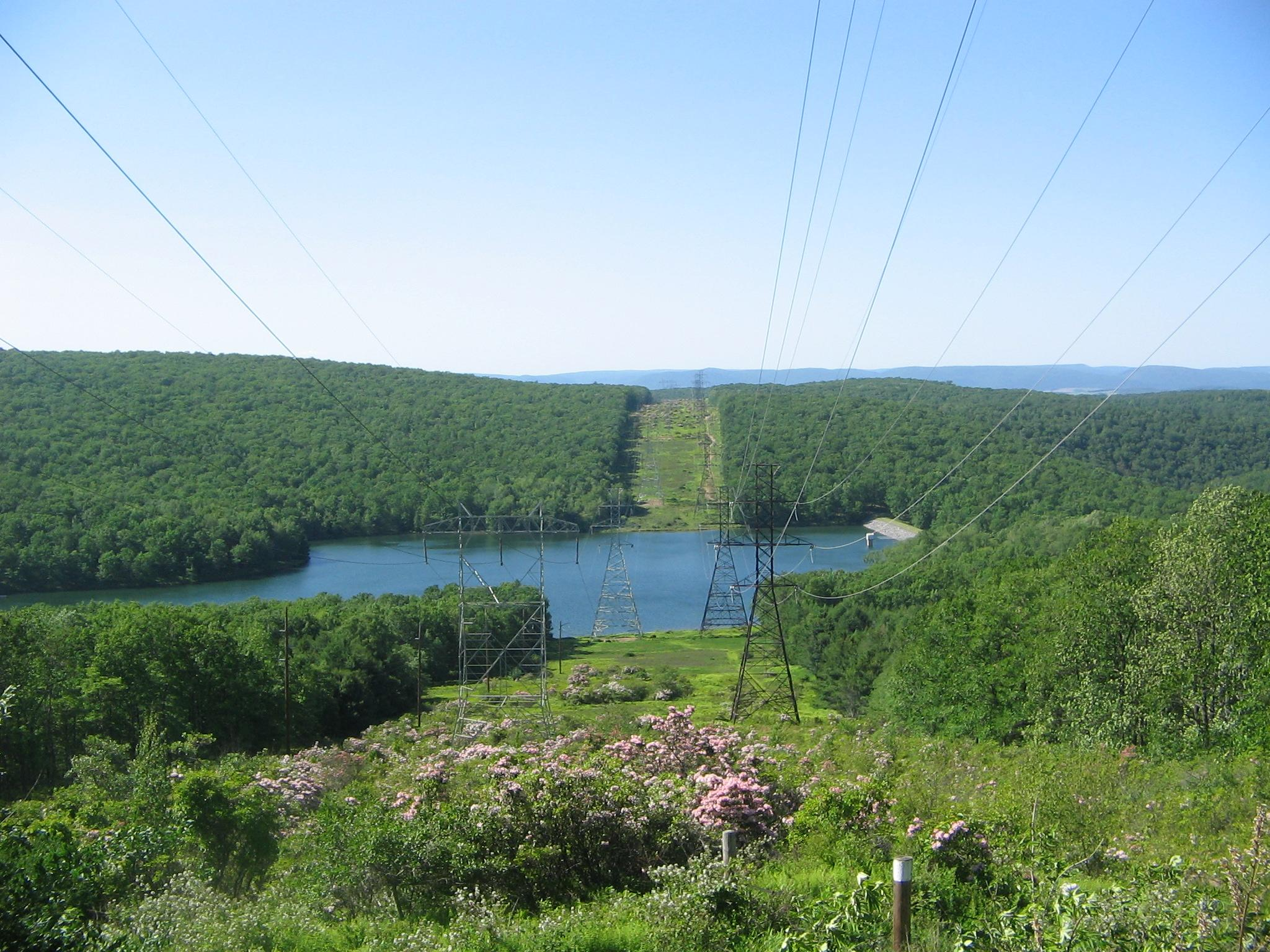 Hagermans Run Reservoir — from PA Route 554, Armstrong Township, Lycoming County, Pennsylvania. Power line run cuts through the forest.